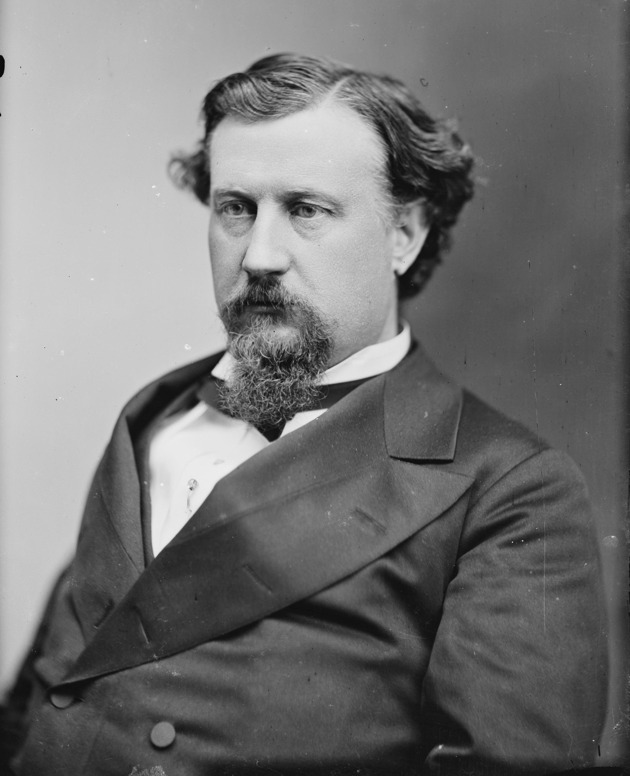 George E. Spencer. Library of Congress description: "Spencer, Hon. George E. of Ala"